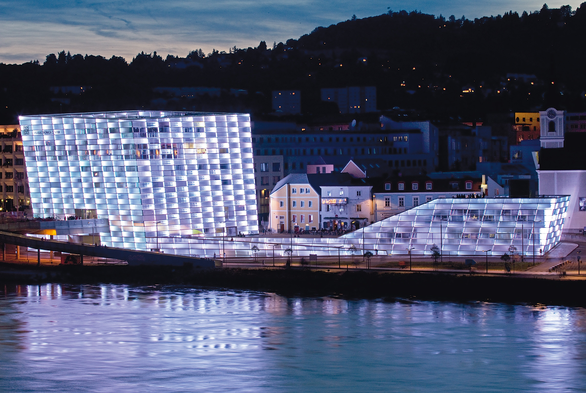 The Ars Electronica Center in Linz, Austria is an ESO Outreach Partner Organisation. It works with ESO on a residency programme as part of the European Digital Art and Science Network initiated by Ars Electronica and seven cultural partners throughout Europe with the support of the Creative Europe Program of the EU. Read more about ESO's partnership organisations here